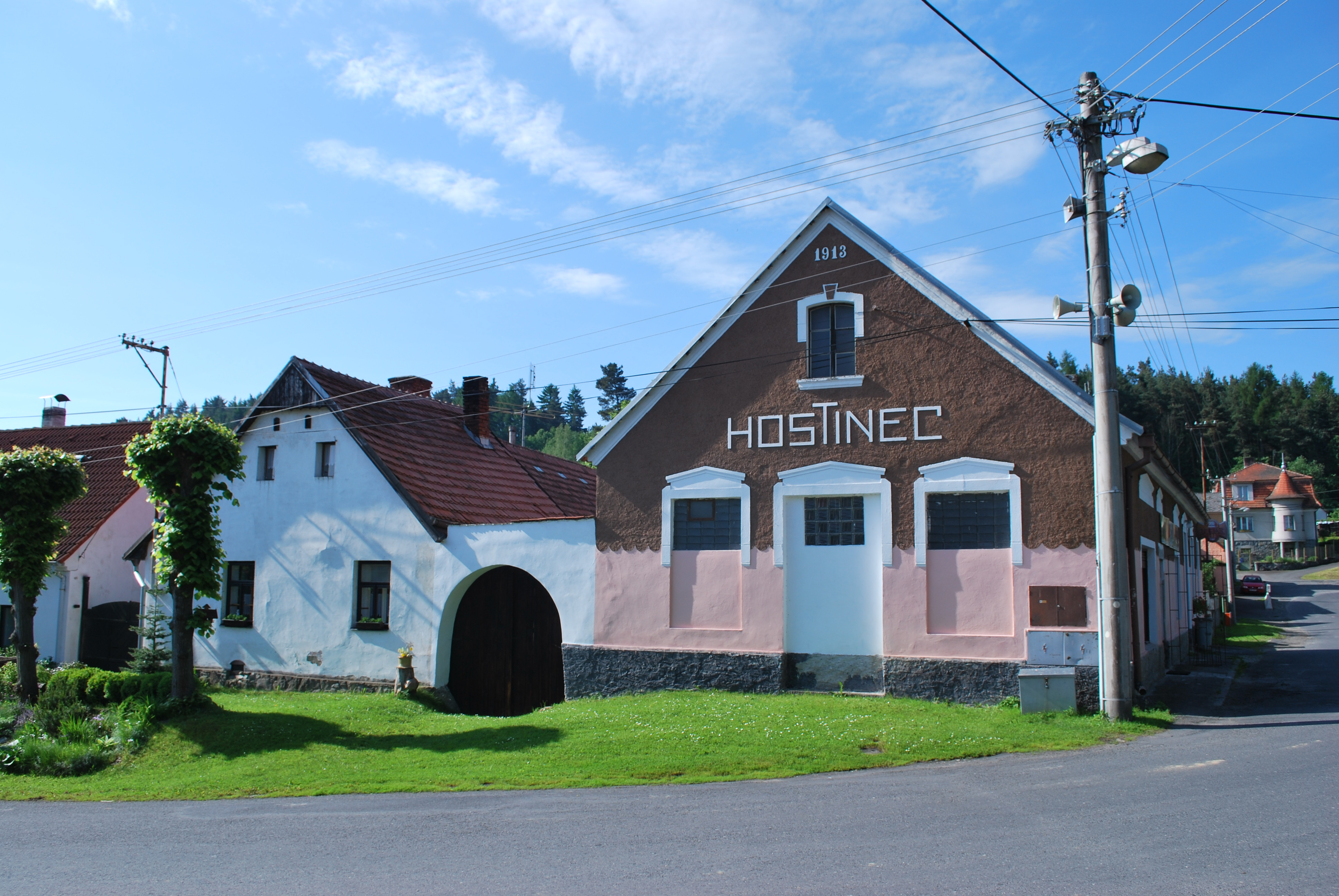 Frymburk village in Klatovy District, Czech republic. Pub This photograph was taken within the scope of the 'Czech Municipalities Photographs' grant. - Google Maps - Google Earth